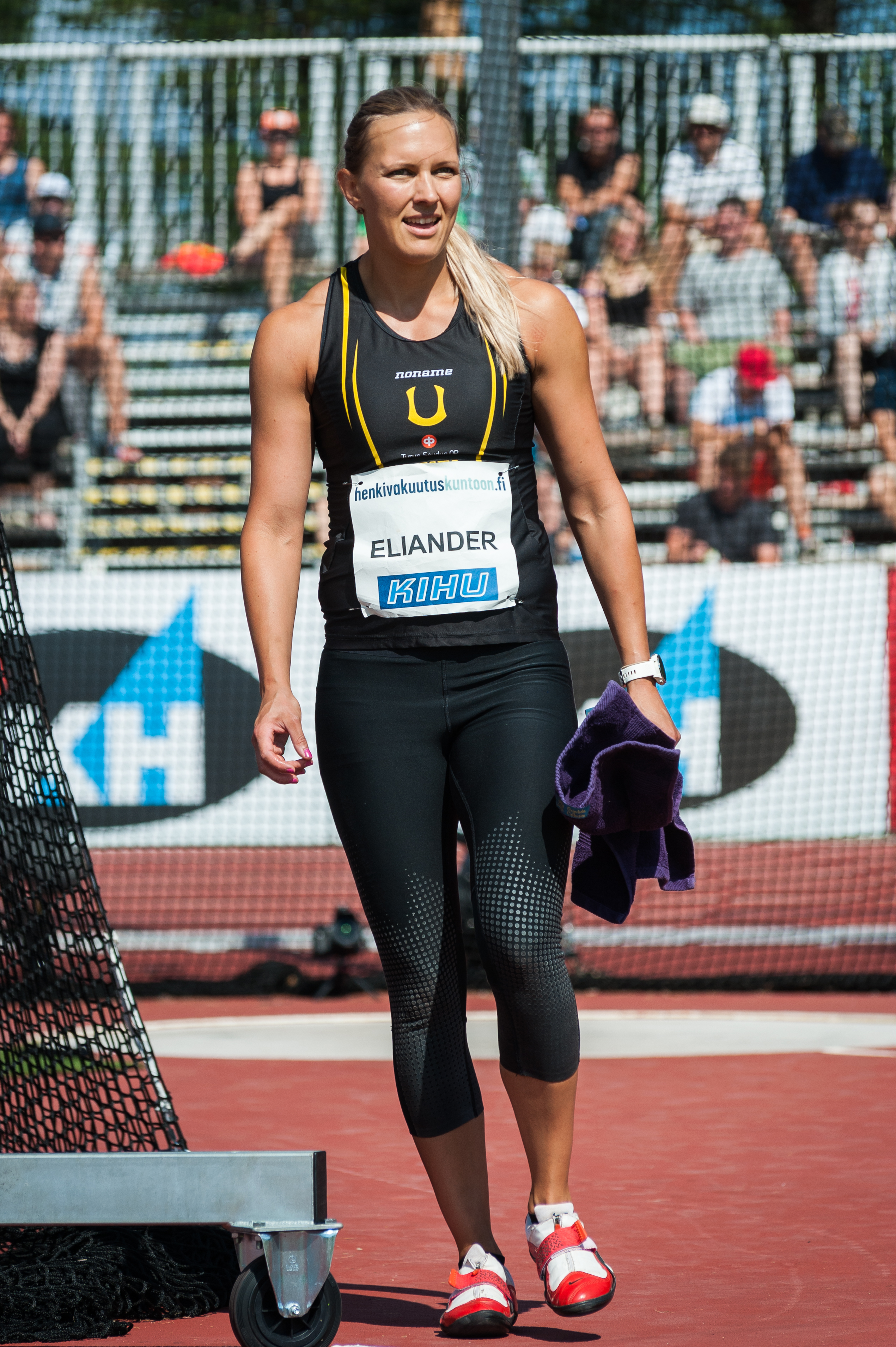 Women's discus throw competition at the 2018 Kalevan Kisat, the Finnish championships in athletics, in Jyväskylä, Finland.